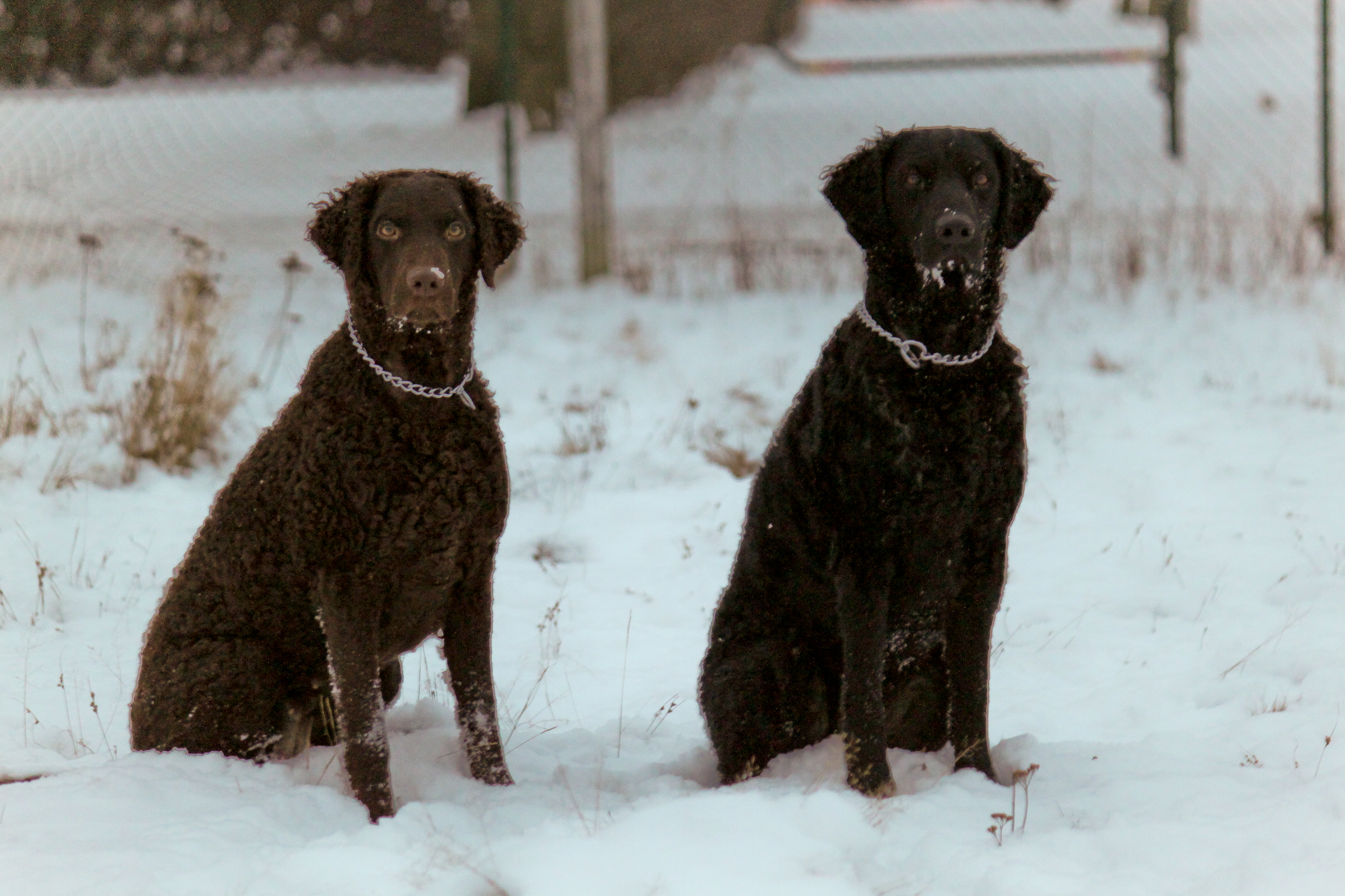 Portrait of Skilla & Kita